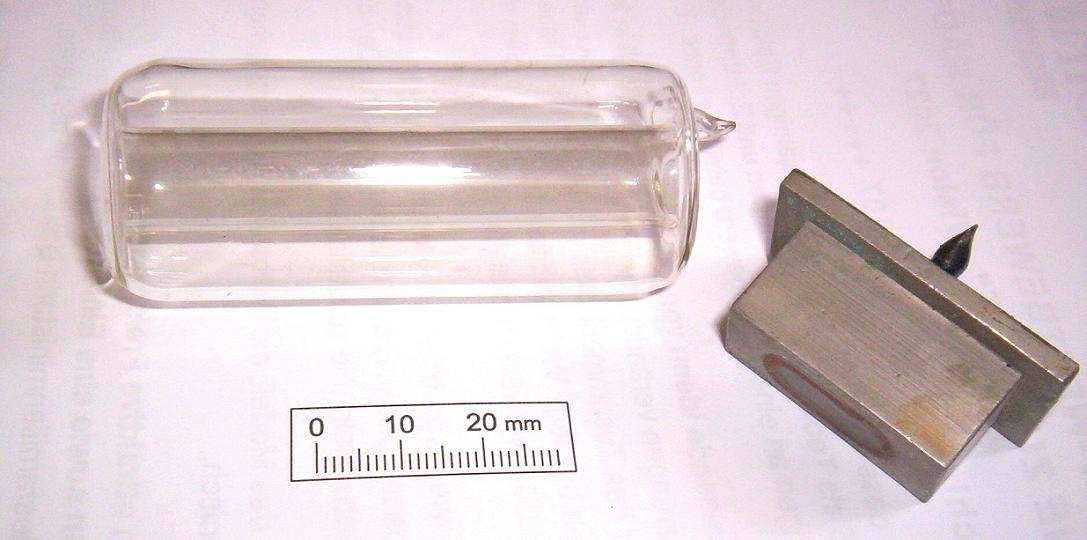 Nullode, left coaxial (toroidal) shaped, right chamber-like